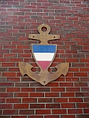 Anchor emblem of the Sailor School Travemünde-Priwall